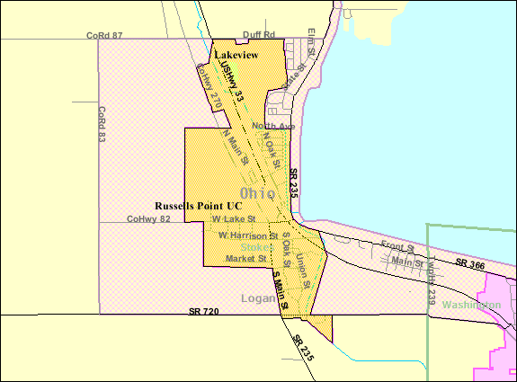 Map of Lakeview, a village in Logan County, Ohio, United States, with its boundaries at the time of the 2000 census.